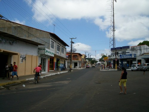 street capitão ferreira